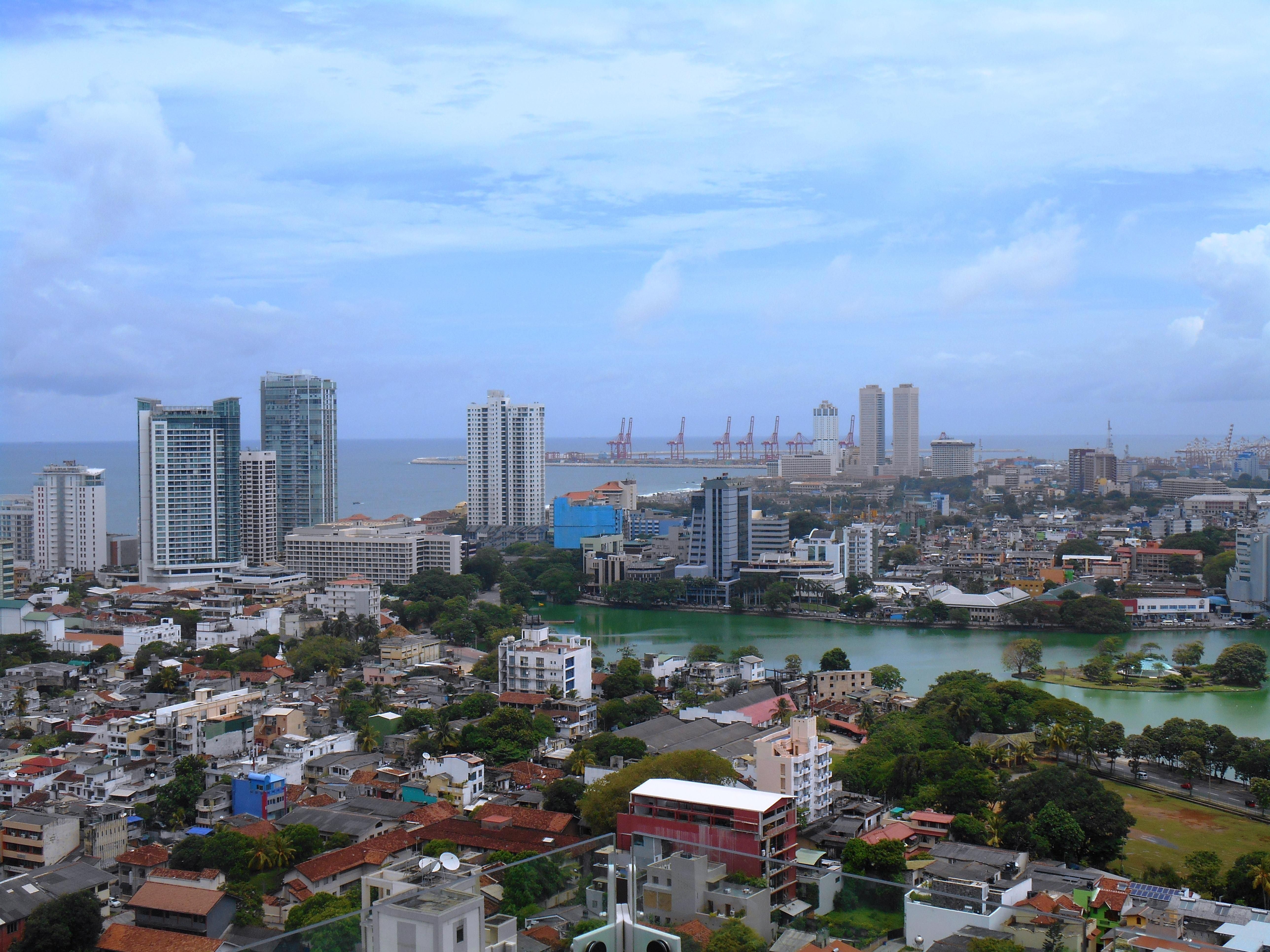 Photograph of Colombo City, Sri Lanka